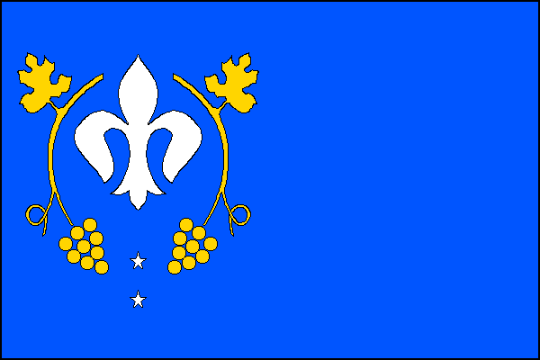 Municipal flag of Ždánice town, Hodonín District, Czech Republic.